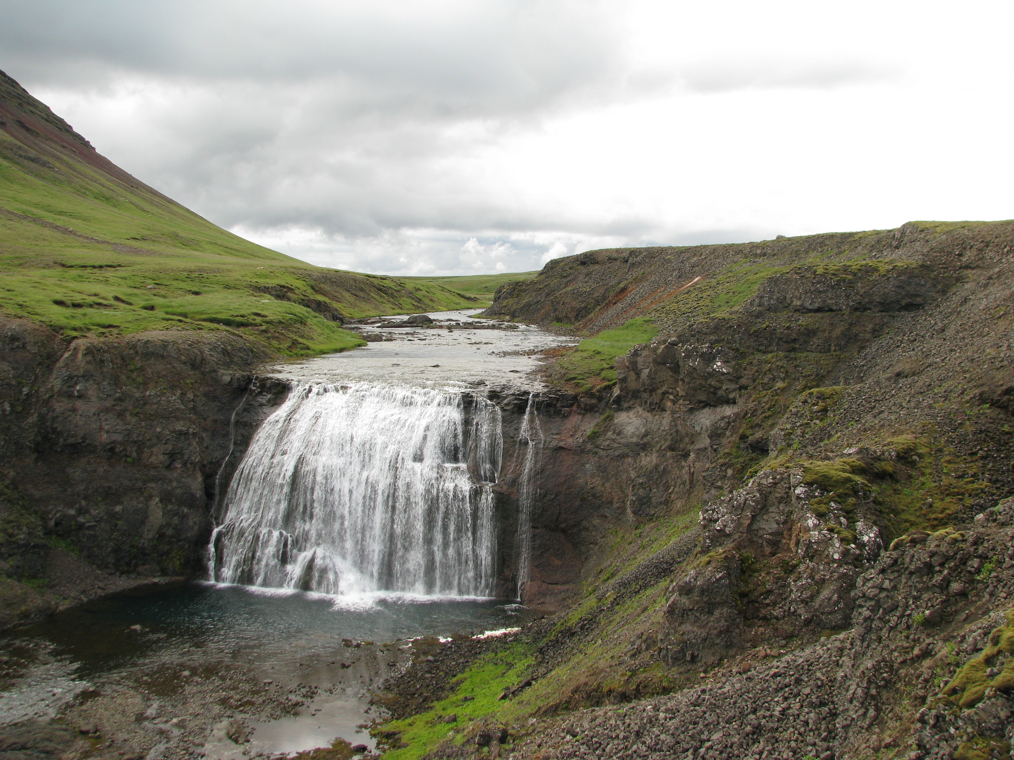 Þórufoss, a waterfall in Iceland.